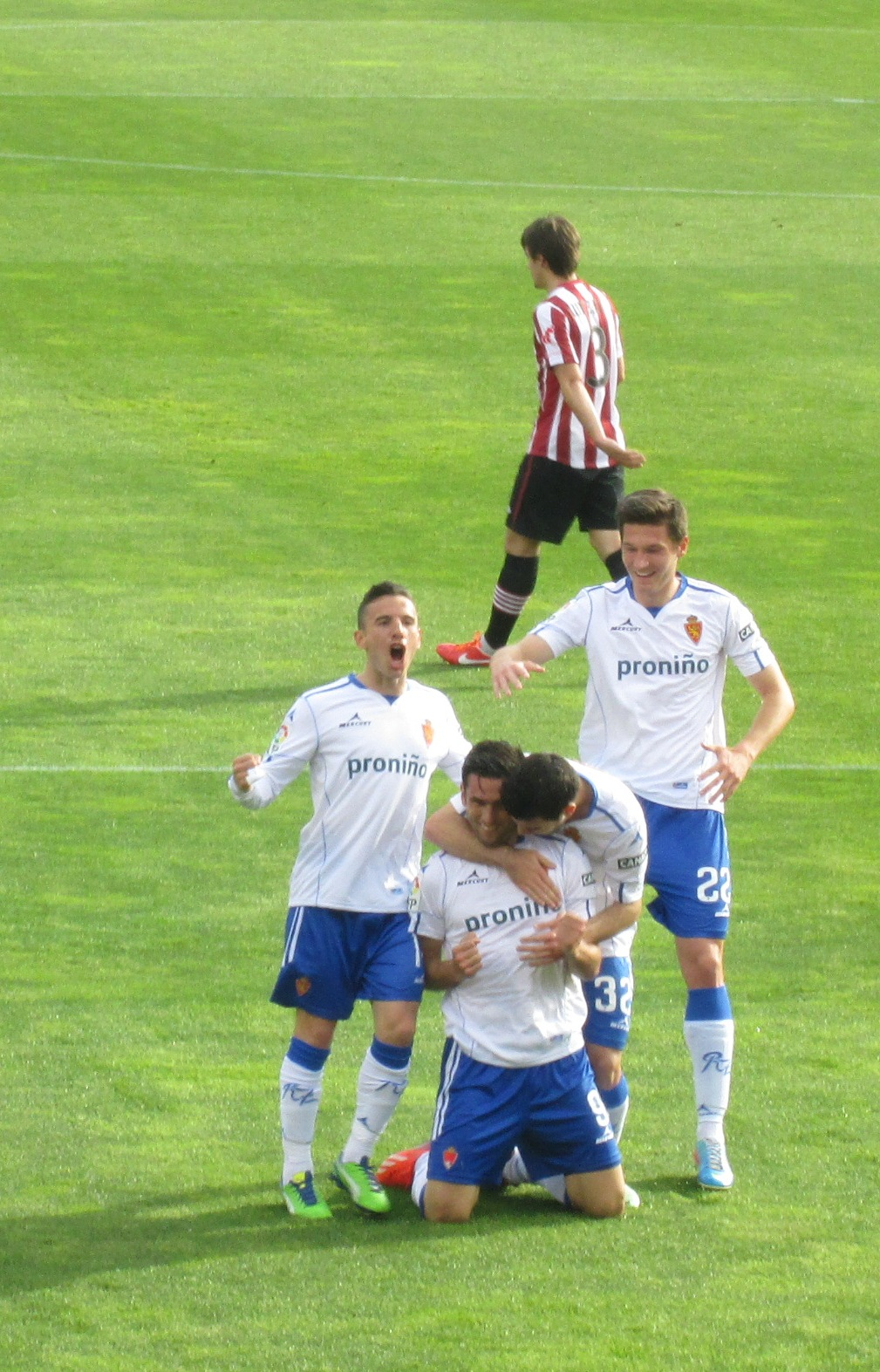 real zaragoza 2013